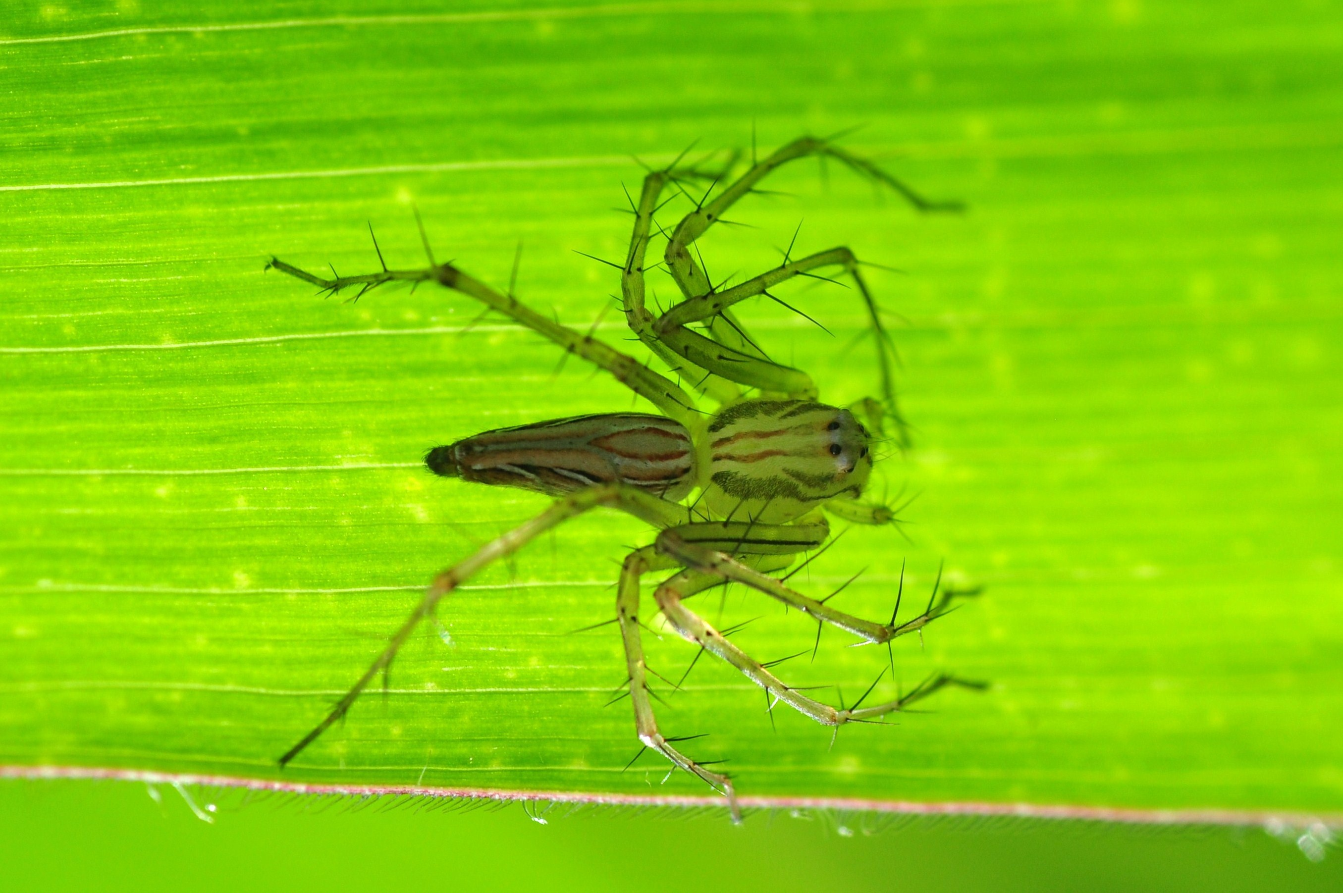 Lynx spider hiding in a corn leaf